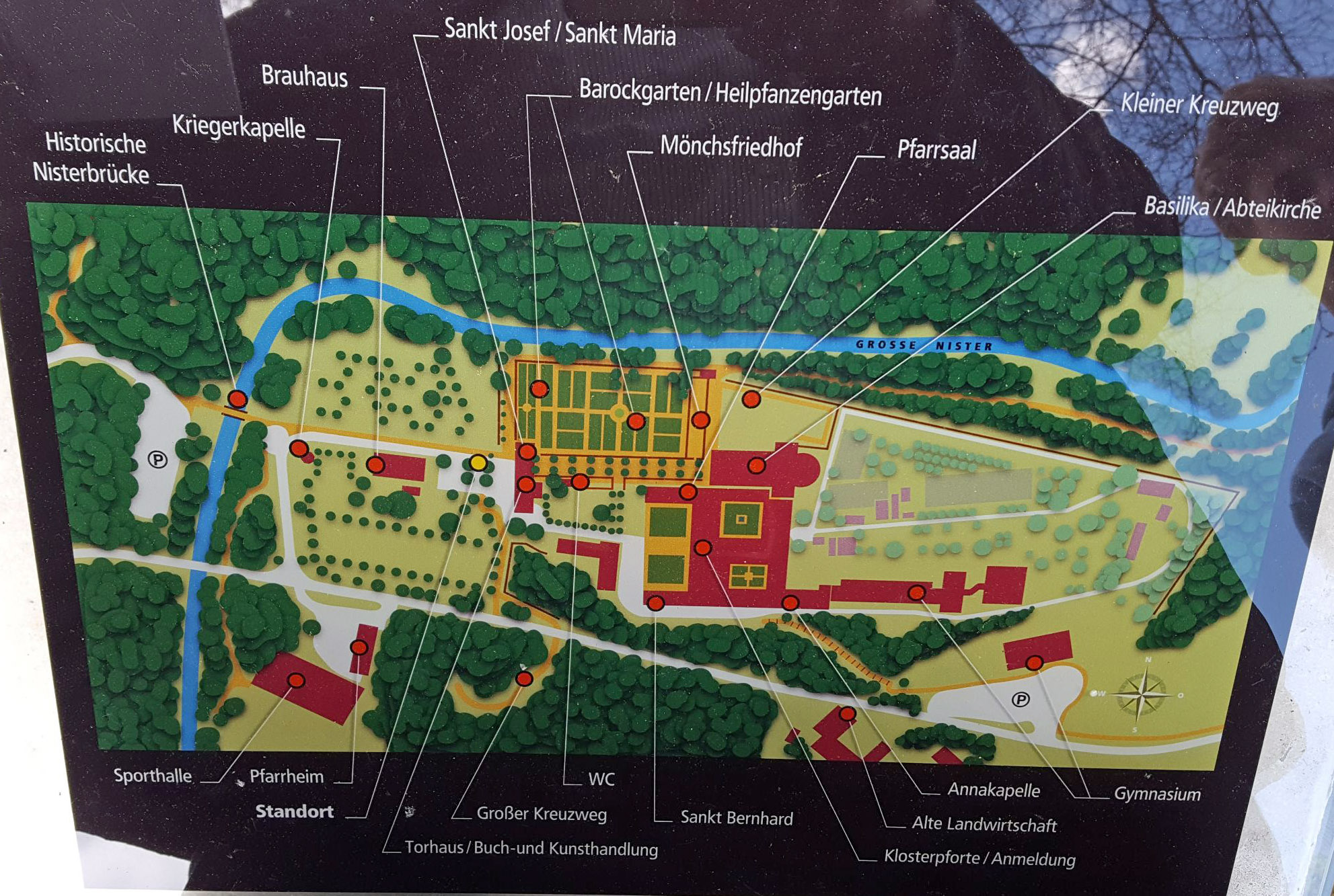 Übersichtsplan Marienstatt